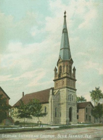 Painted image of First Evangelical Lutheran Church, Blue Island, IL. Julius H. Huber, architect 1863